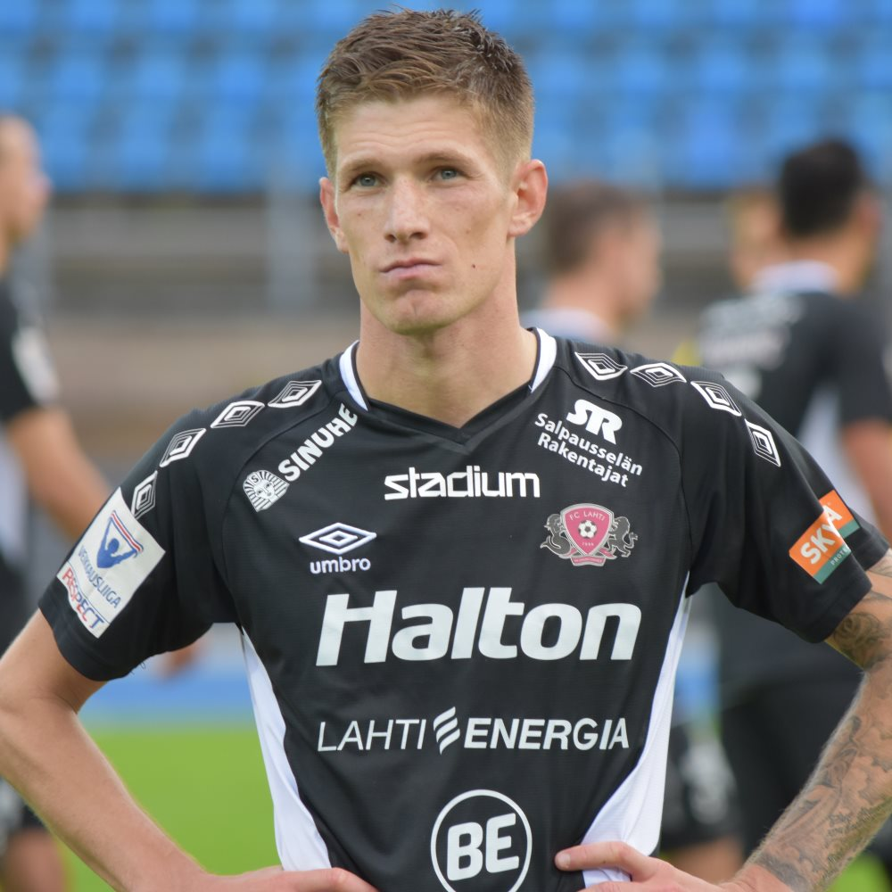 Football player Marko Simonovski (FC Lahti)